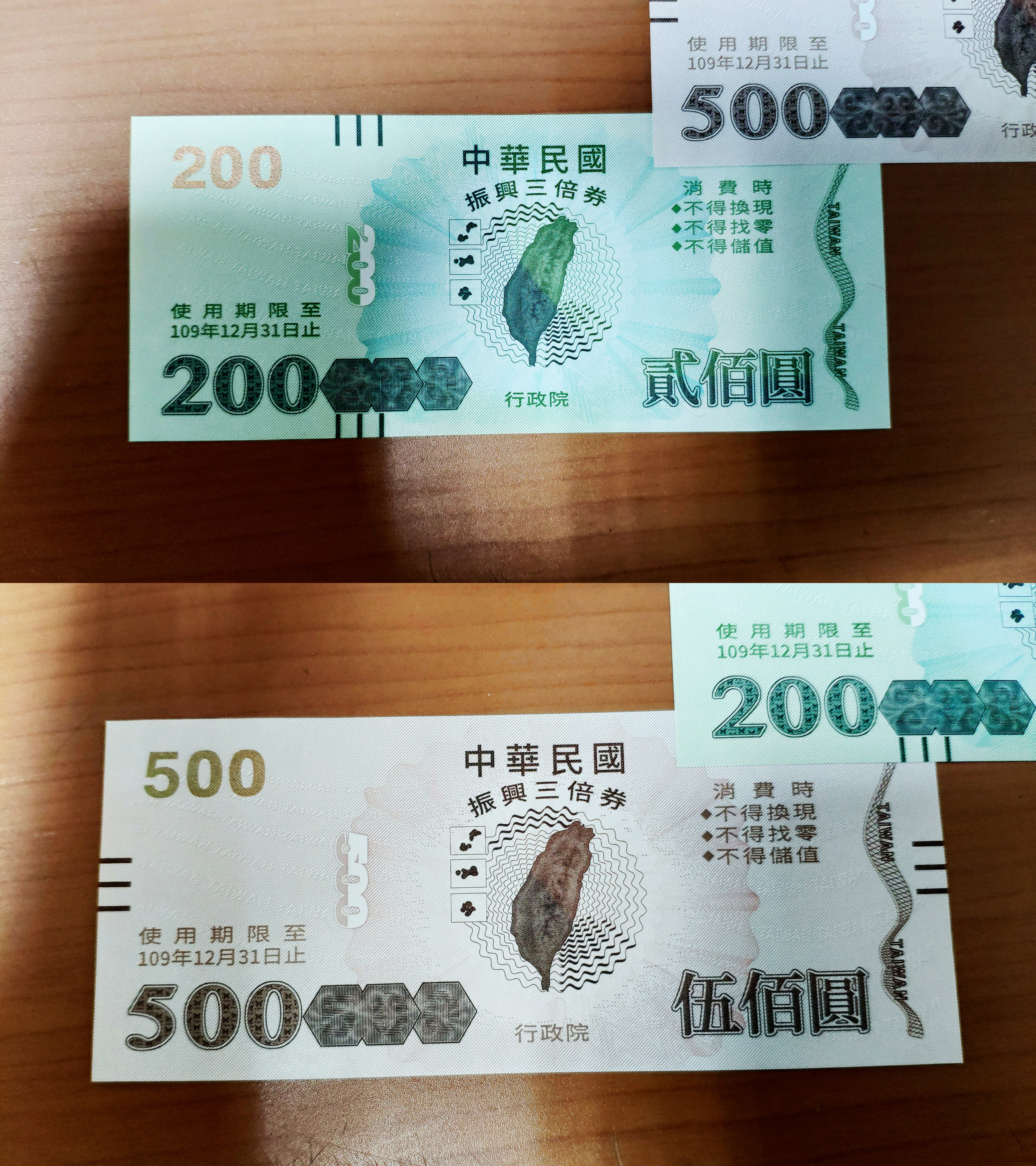 Triple Stimulus Vouchers is the official voucher used in Taiwan(R.O.C.) from July 15 to December 31, 2020. About 6 months. A 200-point voucher equals NT$200, and a 500-point equals NT$500. The total voucher is 3000 points(NT$3000), 5 200-point vouchers and 4 500-point.